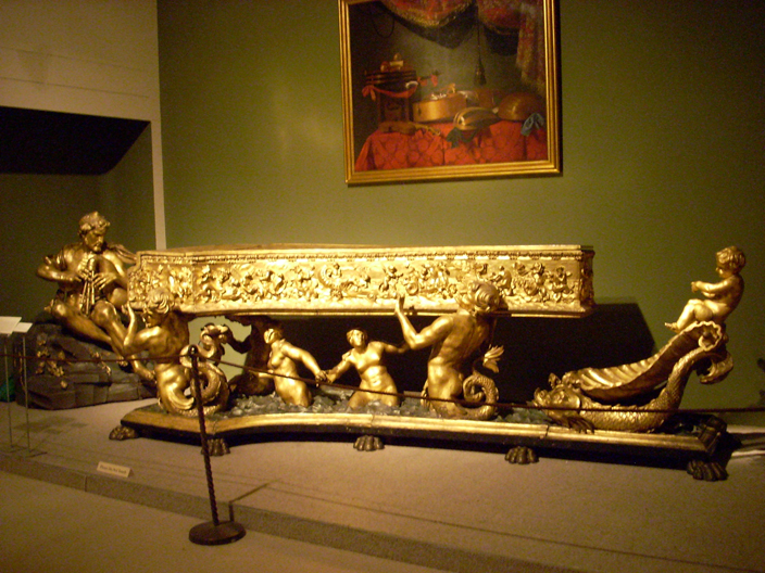 Harpsichord from Rome, by Michele Todini. Circa 1670